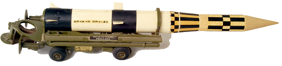 Photograph of presentation model of Pegasus satellite launcher. Model built by Topping Models for the Martin Company. In 1961, the Martin Company proposed a satellite launch system based on the Pershing missile system. Named Pegasus, it would have had a lighter, simplified guidance section and a short third stage booster. A 60-pound (27 kg) payload could be boosted to a 210 miles (340 km) circular orbit, or to an elliptical orbit with a 700 miles (1,130 km) apogee. Pegasus would have used the Pershing erector-launcher and could be emplaced in any open area. Martin seems to have been targeting the nascent European space program, but this program was never developed.